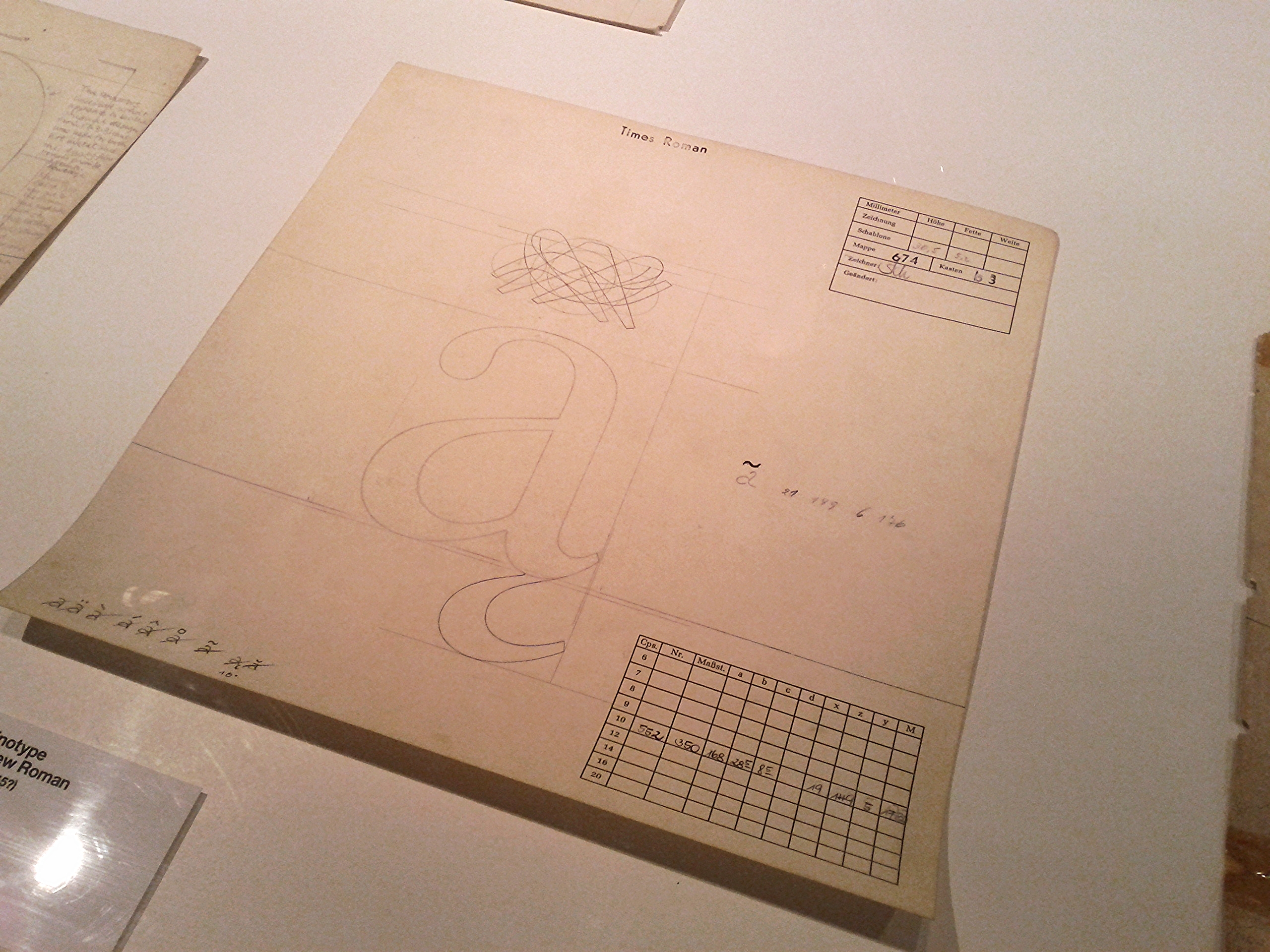 Many accented a